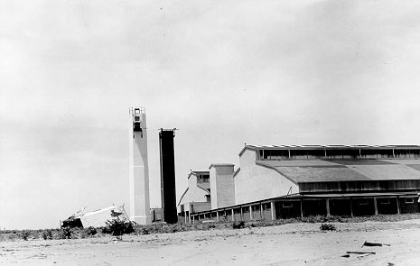 Elm Tree Beacon Lighthouse, Staten Island, built in 1939